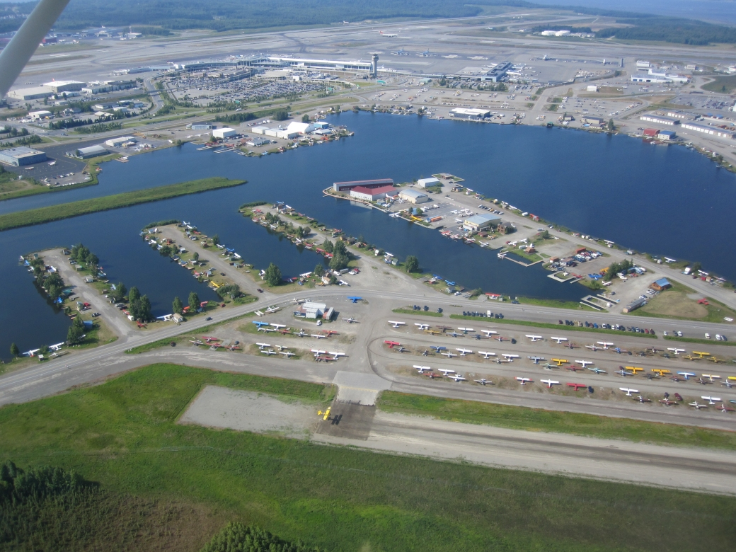 Lake Hood Seaplane Base and Gravel Strip, Anchorage, Alaska. View is to the southwest. July 3, 2009